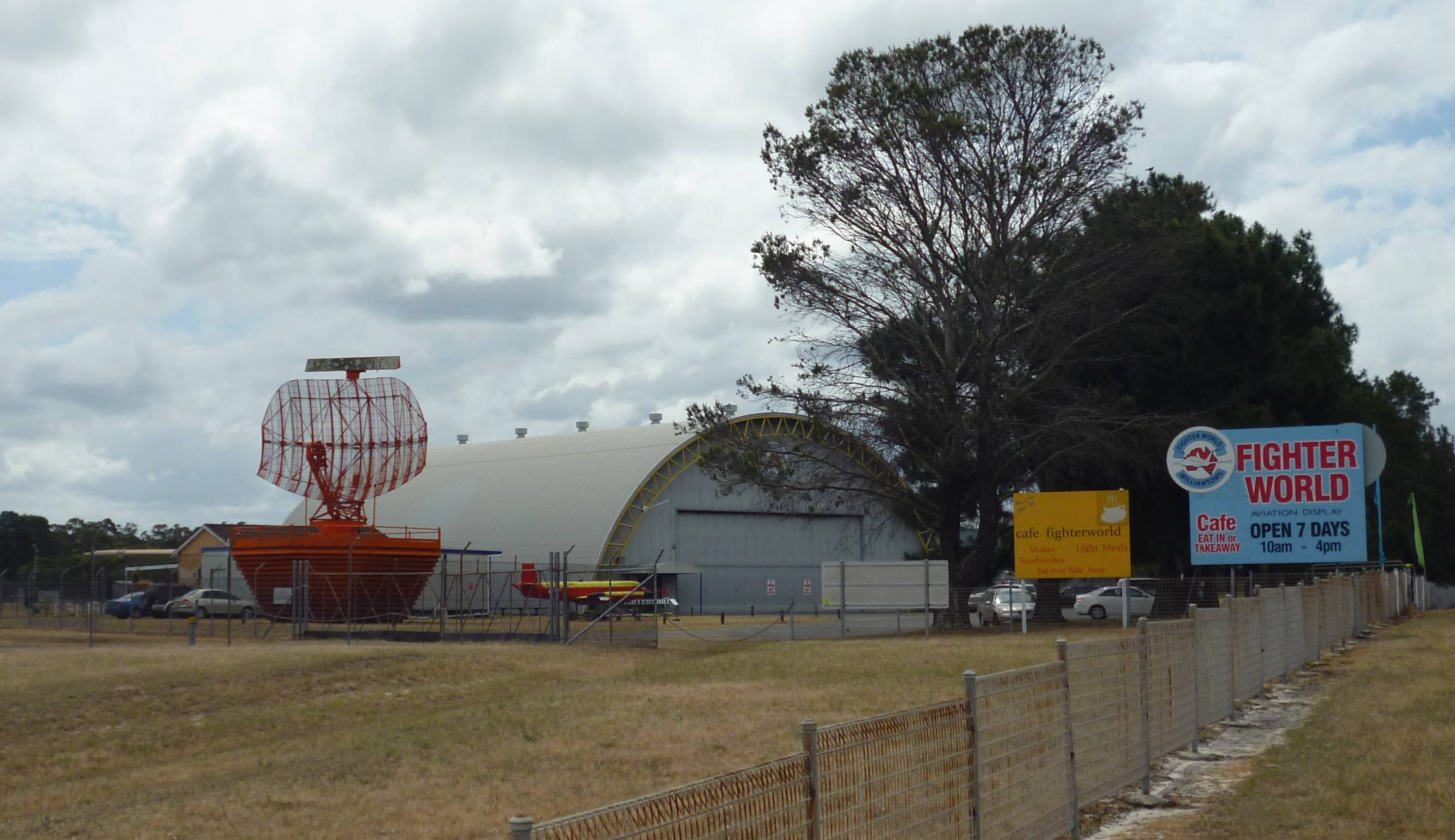 The entrance of Fighter World, a museum dedicated to Australian military fighter aircraft. Fighter World is located within the grounds of RAAF Base Williamtown in New South Wales, Australia. To the left of center is the antenna and pedestal from the bases airfield surveillance radar, and a GAF Jindivik. The Jindivik may be seen in clse-up in File:GAF Jindivik at Fighter World.jpg.